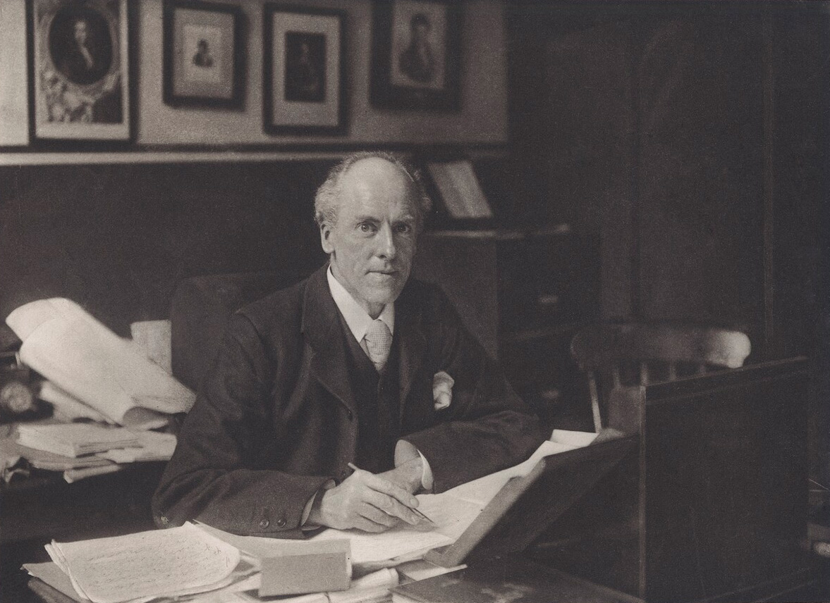 photogravure 128 mm x 171 mm